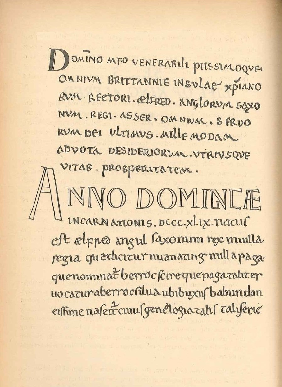 "Life of King Alfred", written by Asser in 893.